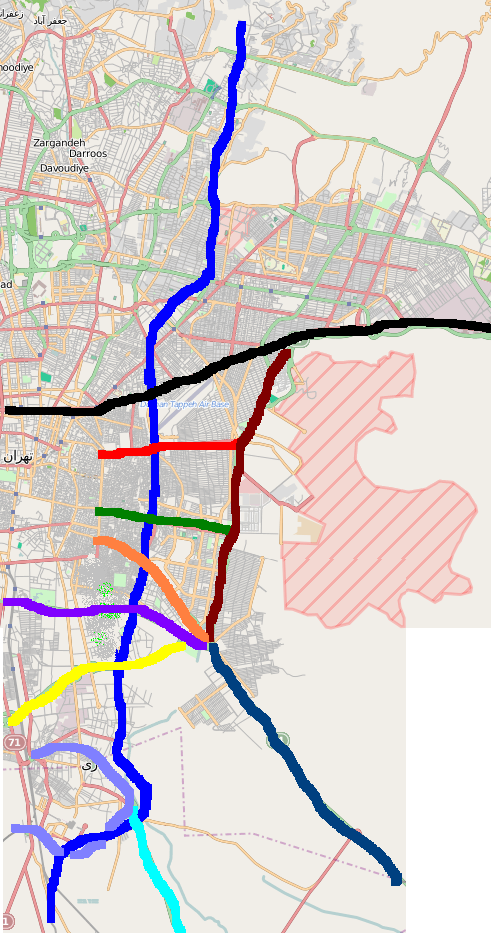 Imam Ali High Way and crosses